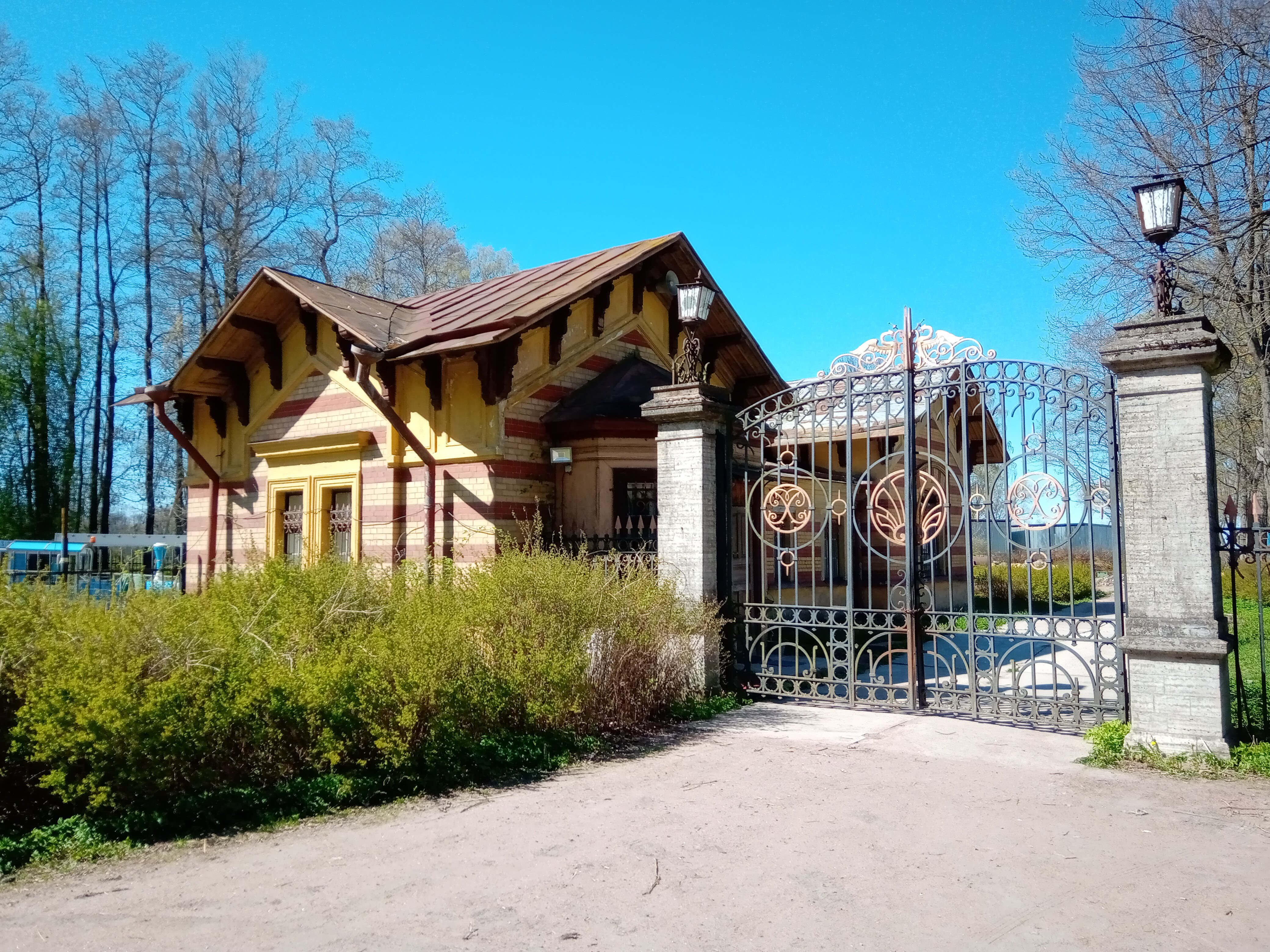 Lower Summer Residence (Peterhof) enter from Znamenka side